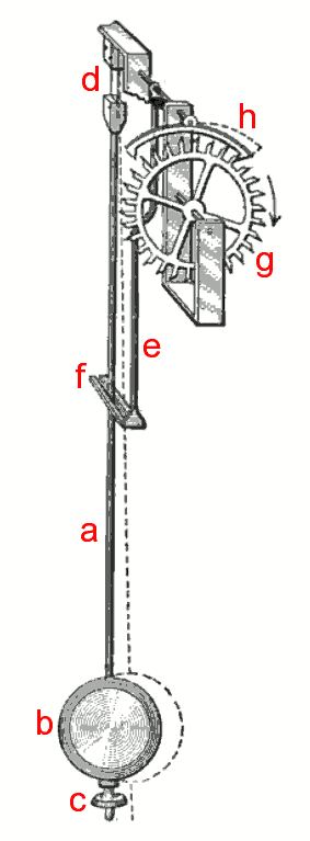 Drawing of a pendulum with anchor escapement, from a 1906 physics book. Labeled parts:(a) pendulum rod, (b) pendulum bob, (c) rate adjustment nut, (d) pendulum suspension spring, (e) crutch, (f) fork, (g) escape wheel, (h) anchor. Alterations to image: altered brightness slightly to optimise contrast, replaced original part labels with colored labels in different order, and added labels a, b, c, and d